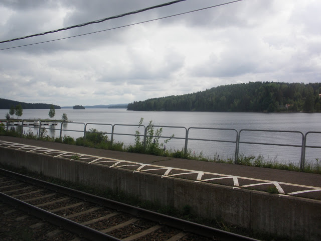 Edane train station, taken from the train. Background: Lake Värmeln.